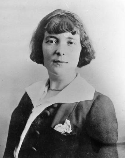 Katherine Mansfield, a New Zealand-writer of short stories. Picture taken 1912.